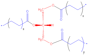 General structure of a triglyceride